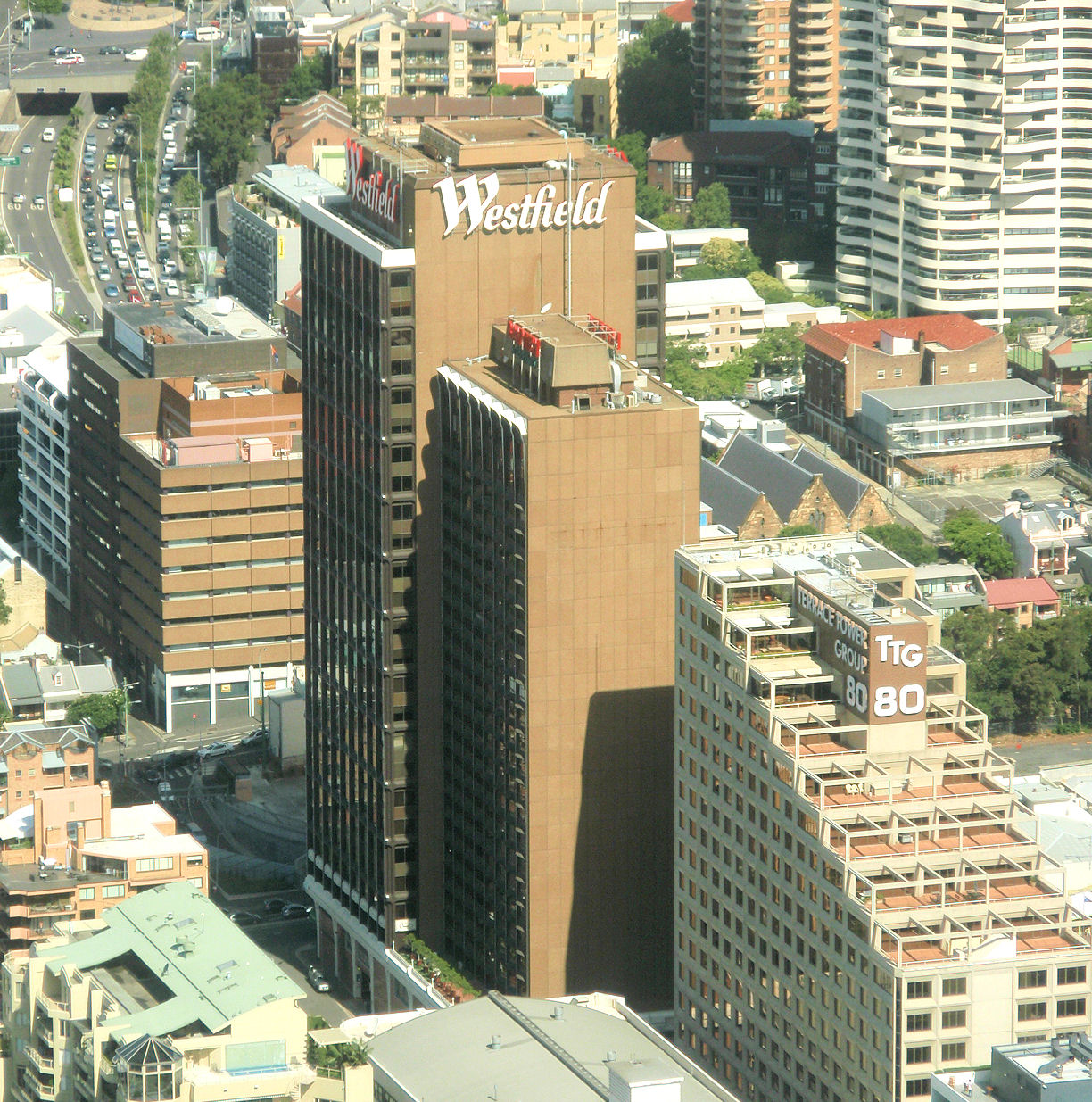 Westfield Group headquarters in Sydney. Photographed by user Coolcaesar from the Sydney Tower on November 27, 2009.